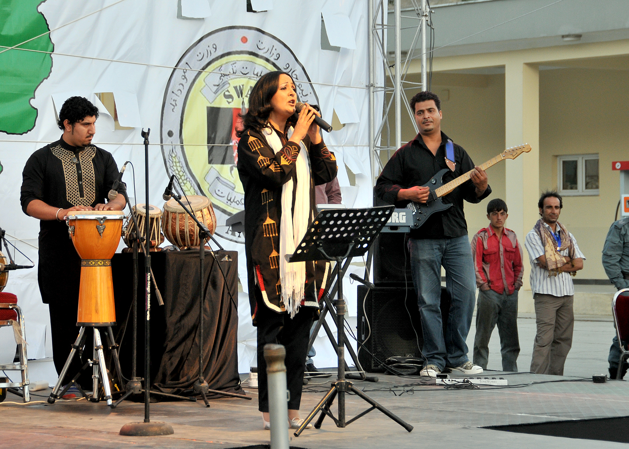 Afghan artist Wajiha Rastagar performs for the members of the Afghan National Civil Order of Police at the ANCOP compound in Kabul, Afghanistan, June 12. The welcome home ceremony and two hour concert honored the ANCOP who recently returned from the Helmand Province. (Photo by U.S. Staff Sgt. Markus M. Maier)